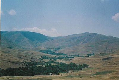 Qozlu is a beautiful village in Iran, Ardabil Province and Germi County